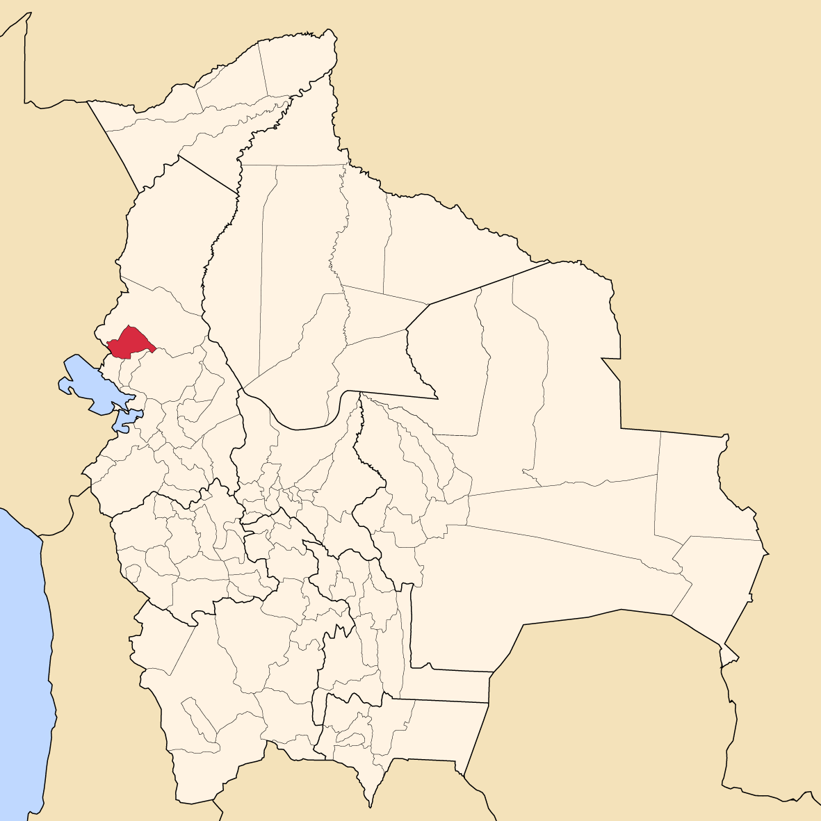 Map of Bolivia showing Bautista Saavedra province, La Paz